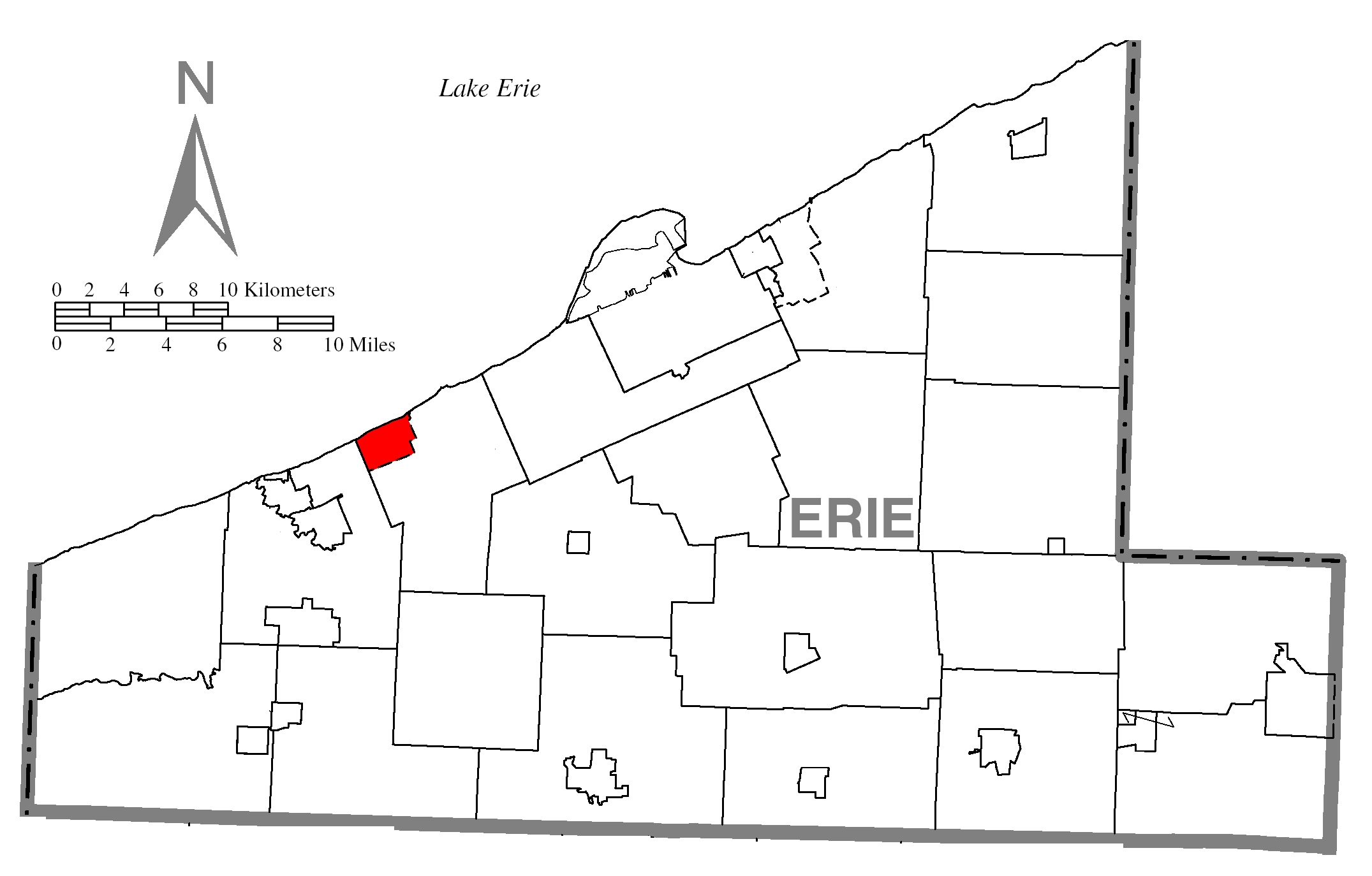 A map of Erie County showing Avonia, Pennsylvania (alternate) highlighted on the map.